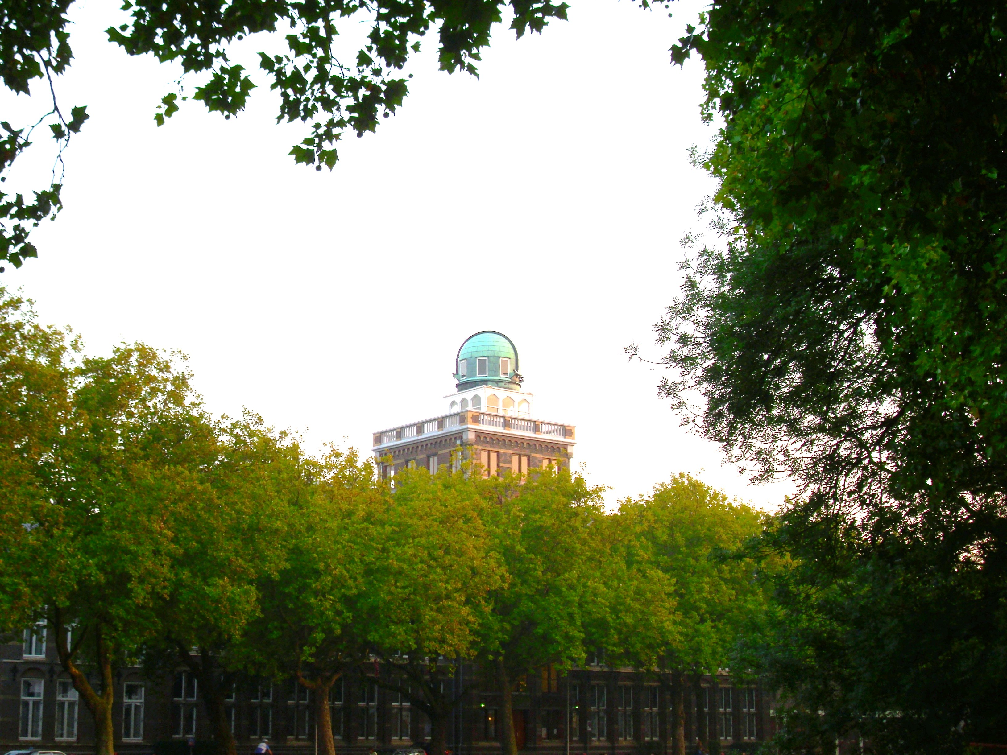 Delft observatory, Kanaalweg 4